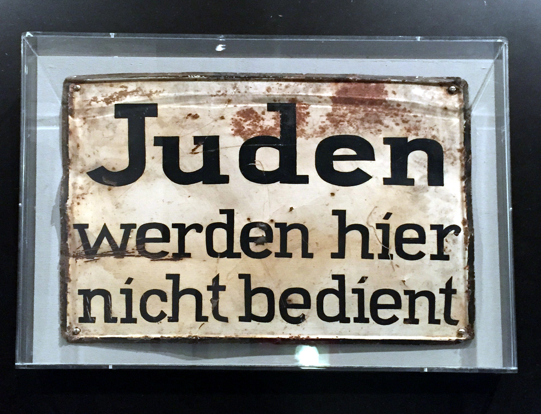 German sign, ca. 1935–1937: Juden Werden Hier Nicht Bedient ("Jews are not served here"). From the collection of the Jewish Museum Berlin.